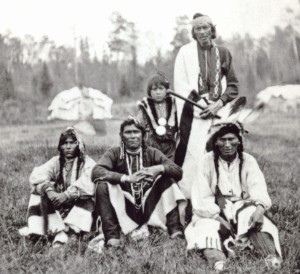 Chippewa (Ojibwa) men at Bad River, Wisconsin.